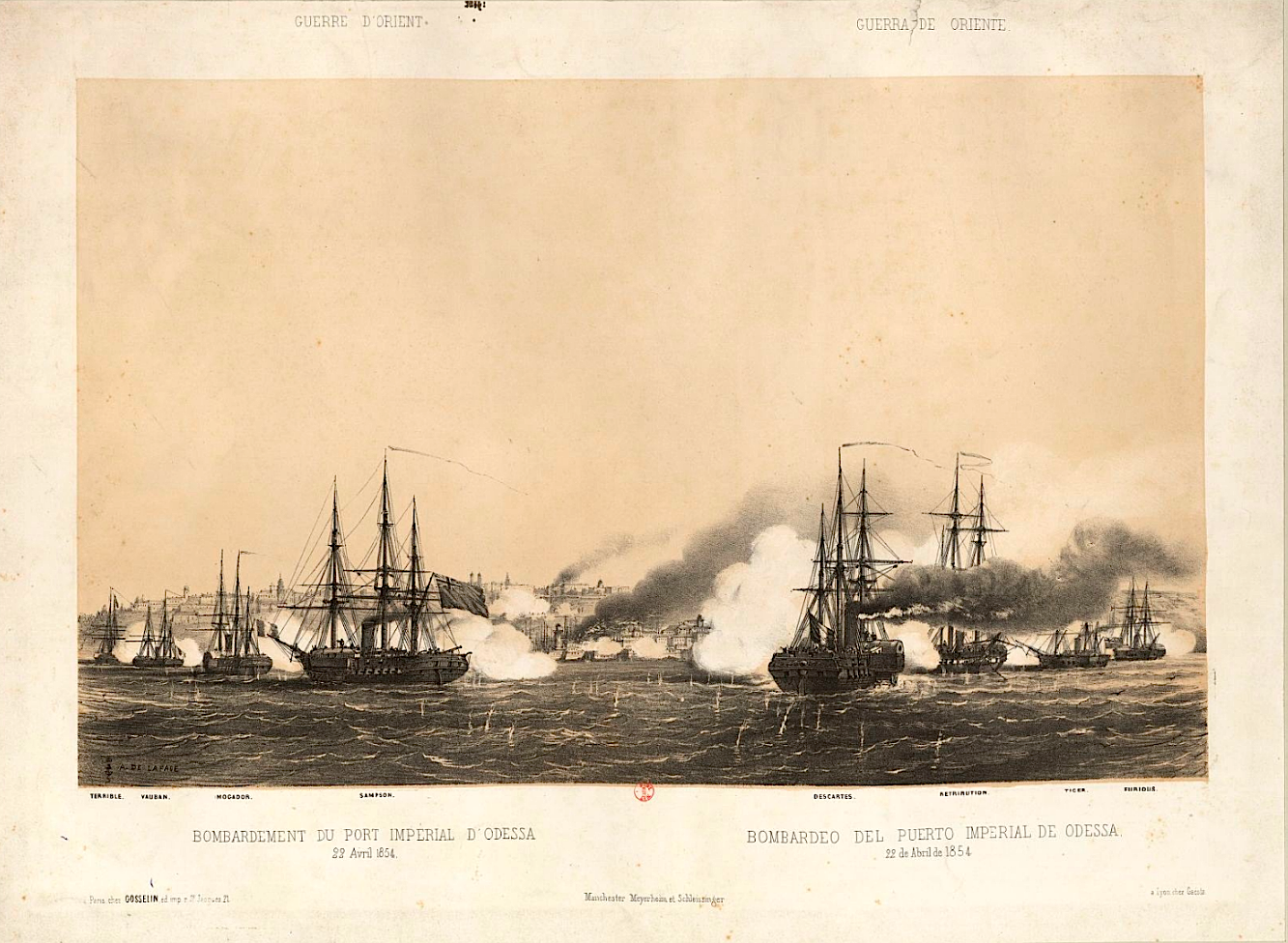 Bombardement du port impérial d'Odessa 22 Avril 1854, lithographic print signed A. de Lafage, printed in Paris, by Gosselin rue Saint-Jacques, 71— dim. : 29,8 x 47,8 cm.